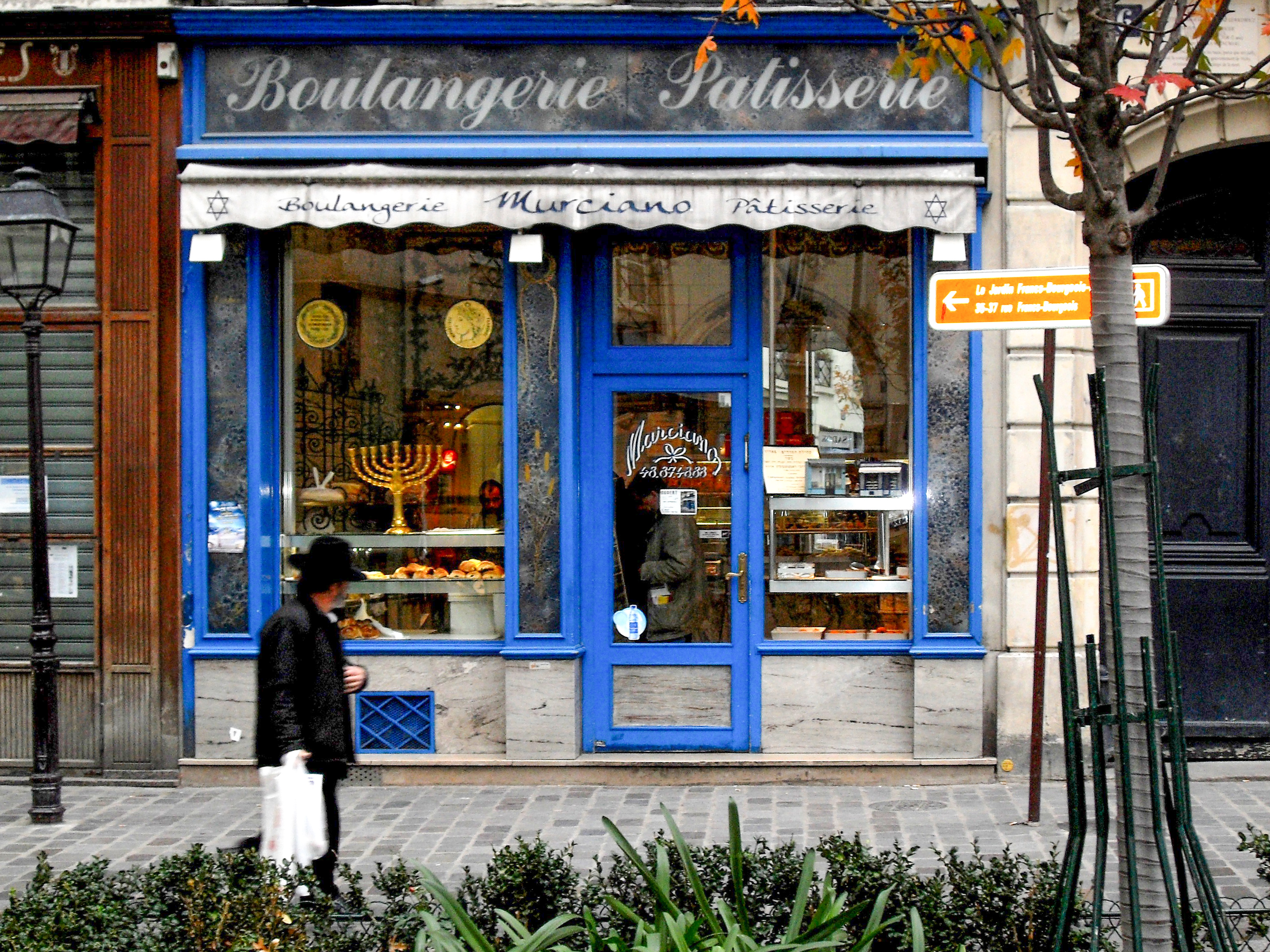 Jewish bakery in the jewish quarter of Paris, called "Pletzl"